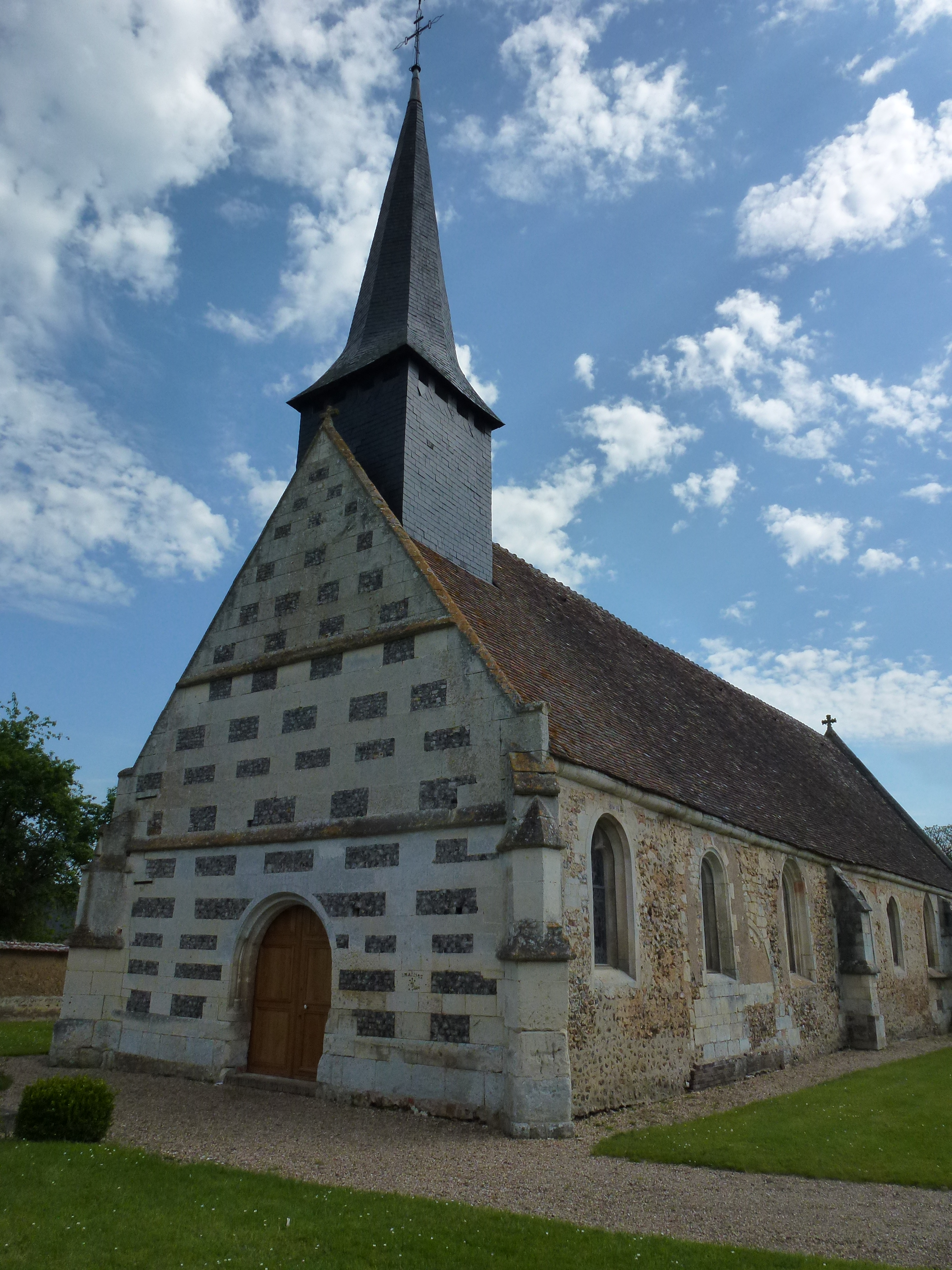 Grosly-sur-Risle (Eure, Fr) église Saint-Léger